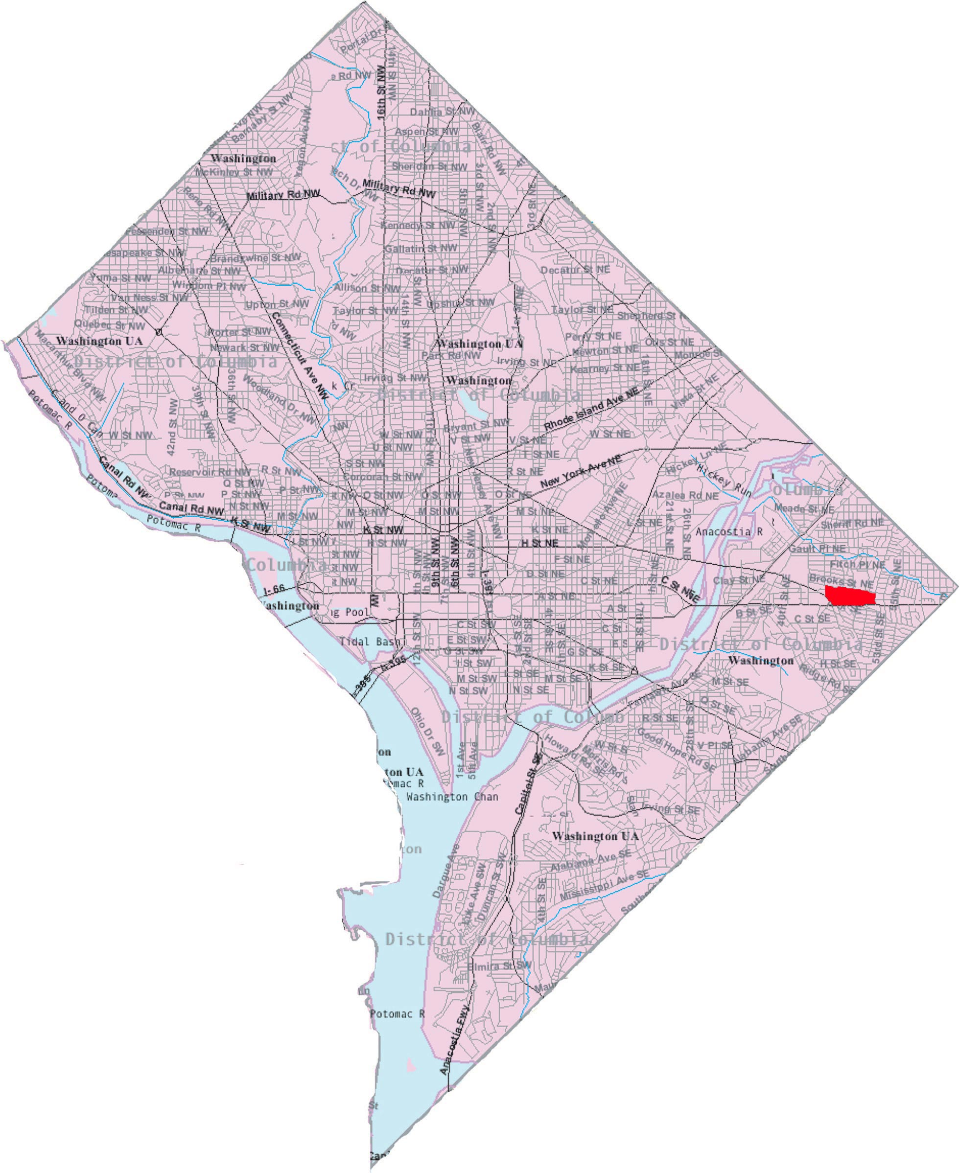 This image is a modified version of a self-generated reference map from the U.S. Census Bureau's American Factfinder at by Wikipedia user Msclguru.